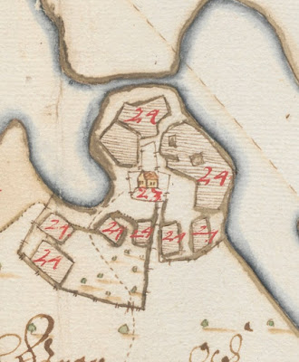 Makkonen village in Suodenniemi, Finland, in 1684. The village consisted of only one house.